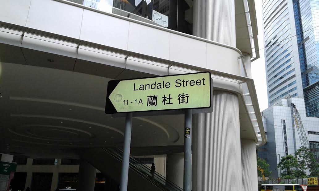 Street sign of Landale Street Hong Kong